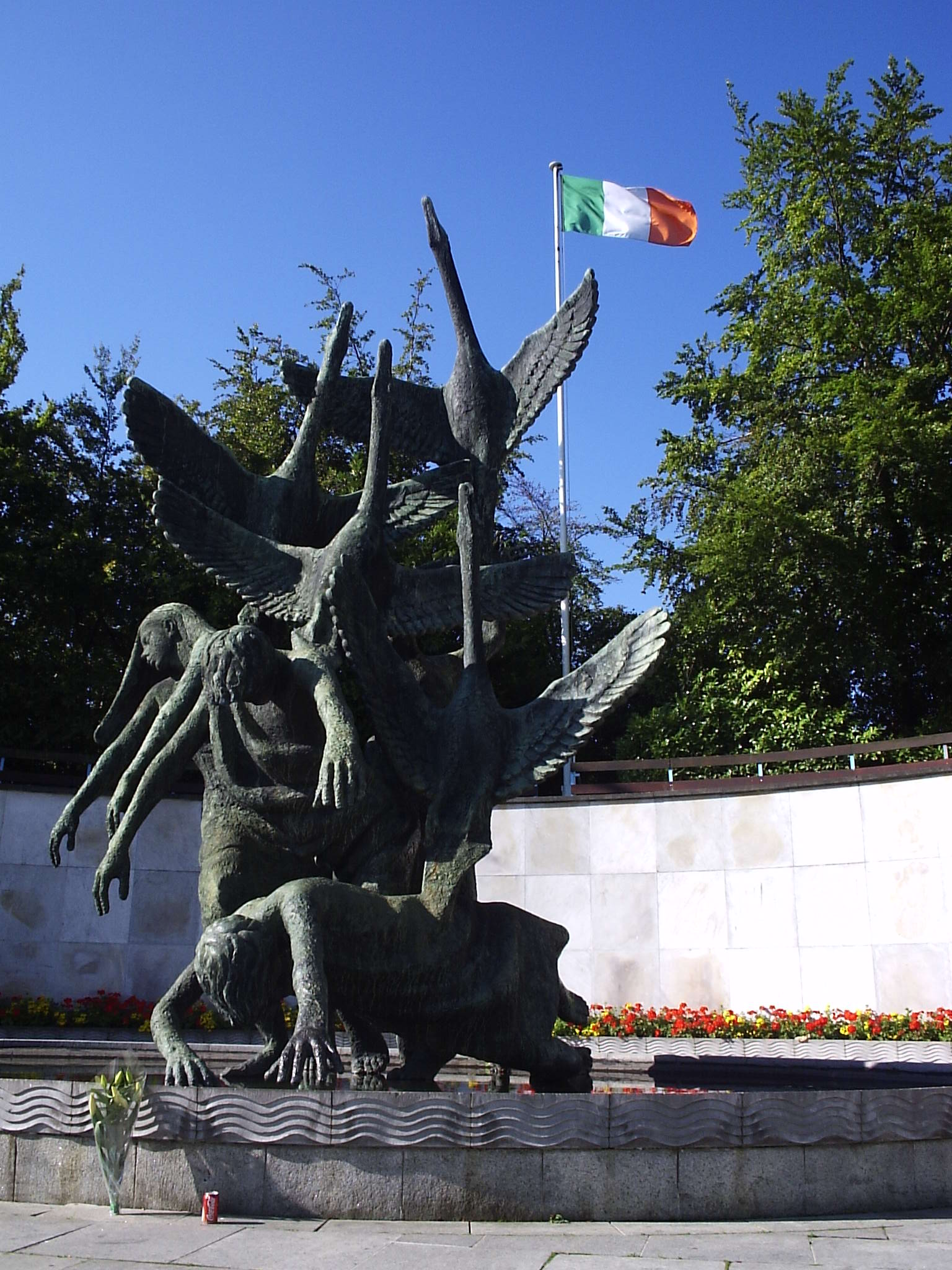 Description: Sculpture in Garden of Remembrance in Dublin. It is called Children of Lir. Author:Sebb